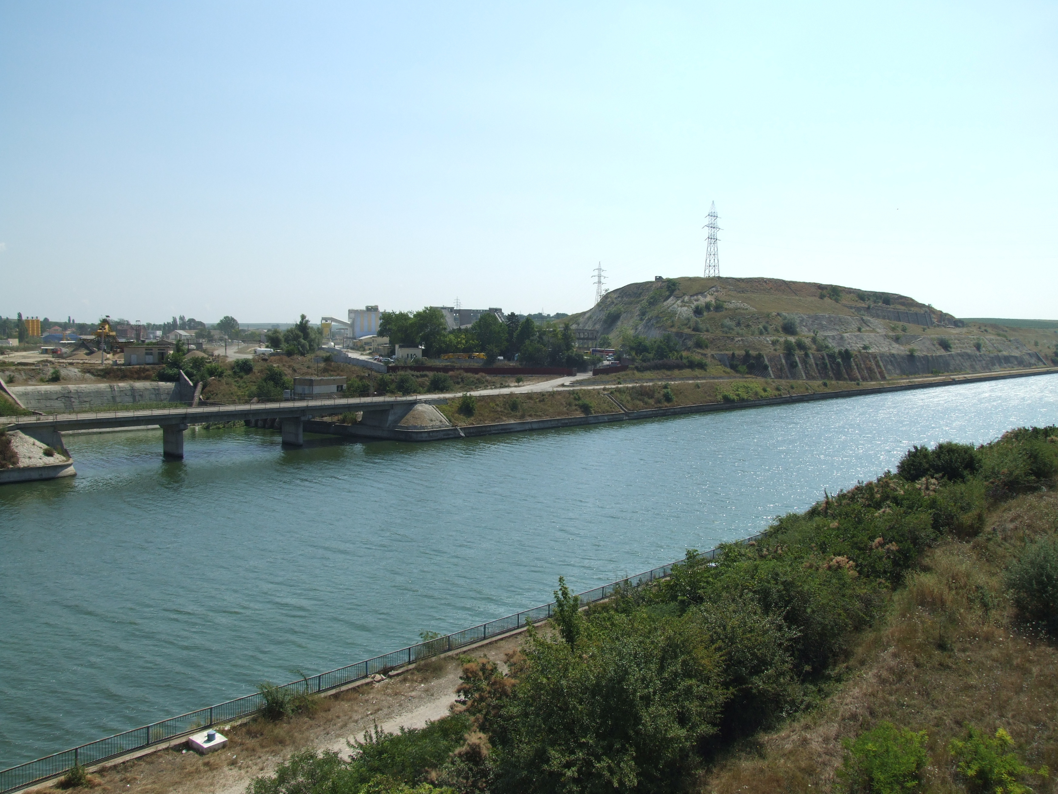 Danube Channel at Murfatlar